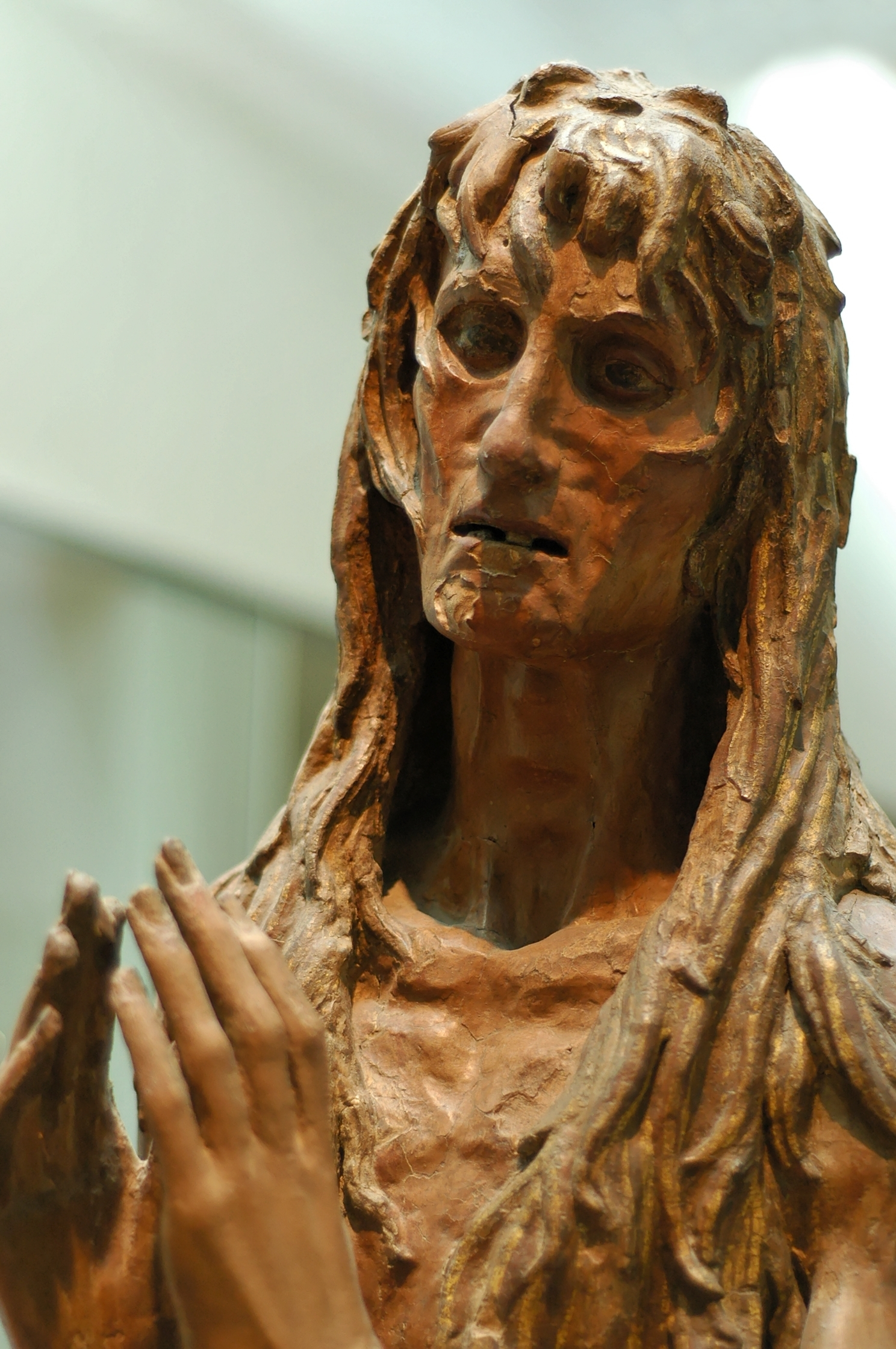 Statue of Mary Magdalene, detail. Was probably placed on the south-western side of the Baptistry of Florence, Italy. Painted and gilded wood, Museo dell'Opera del Duomo.